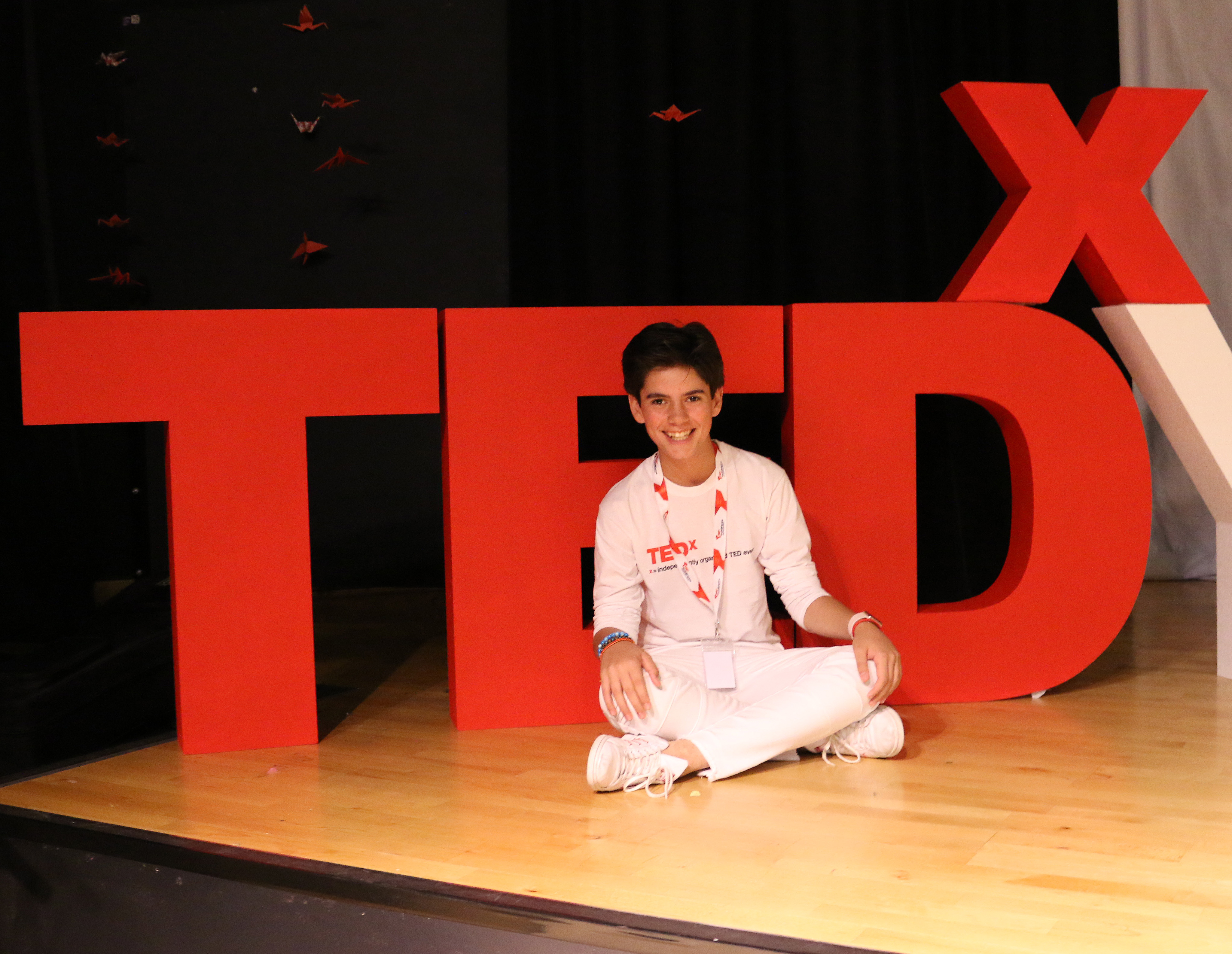 Jenk Oz, age 12, TEDx Talk Harlow, UK